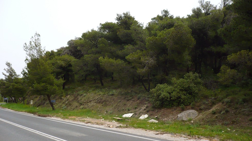 The picture illustrates the west part of the Vrilissia suburban forest, as viewed from the Pentelis Avenue. Trees are Pinus halepensis.